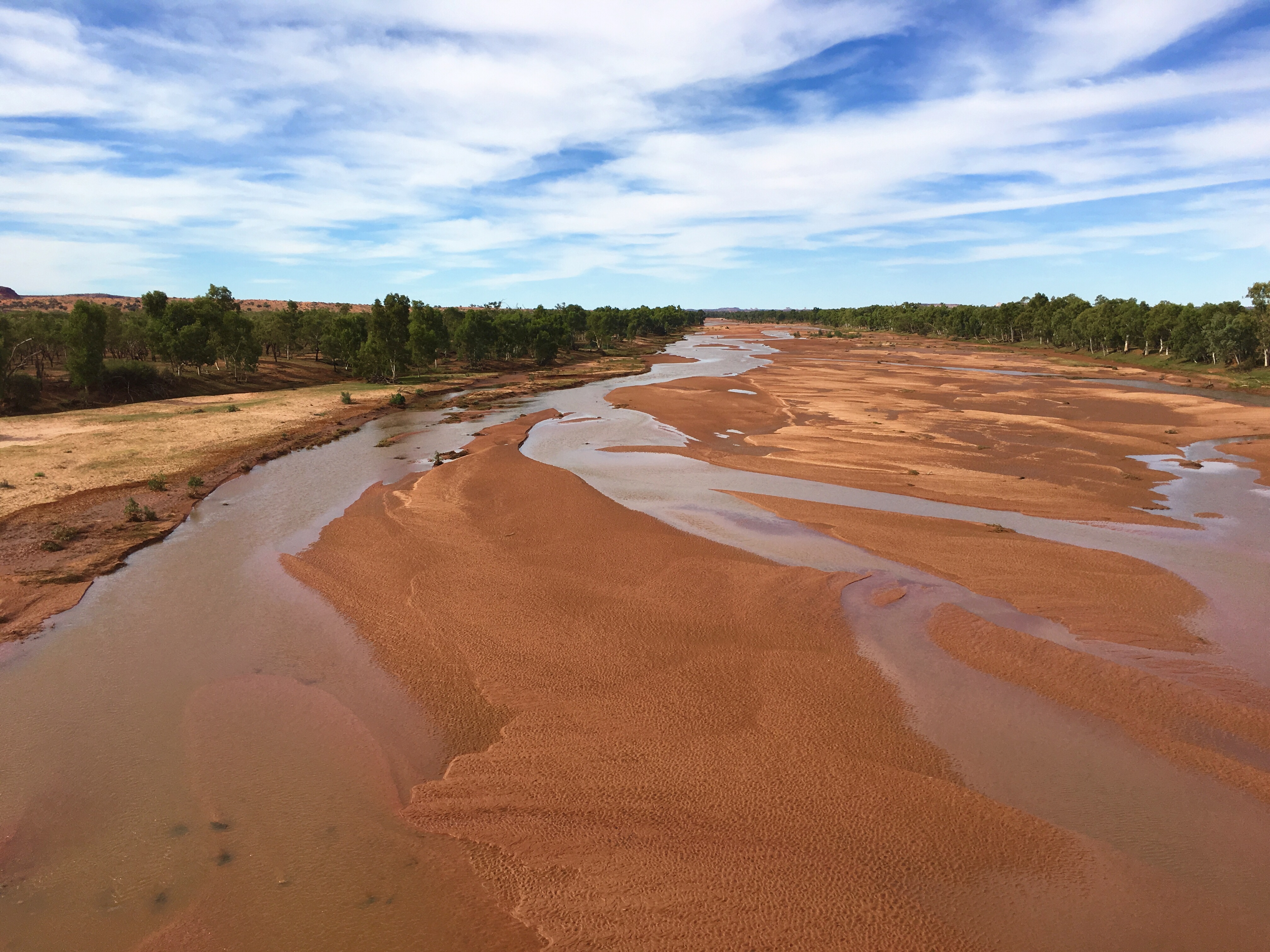 Finke River, Northern Territory